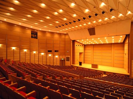 Tanzan Ishibashi Memorial Auditorium of Rissho University